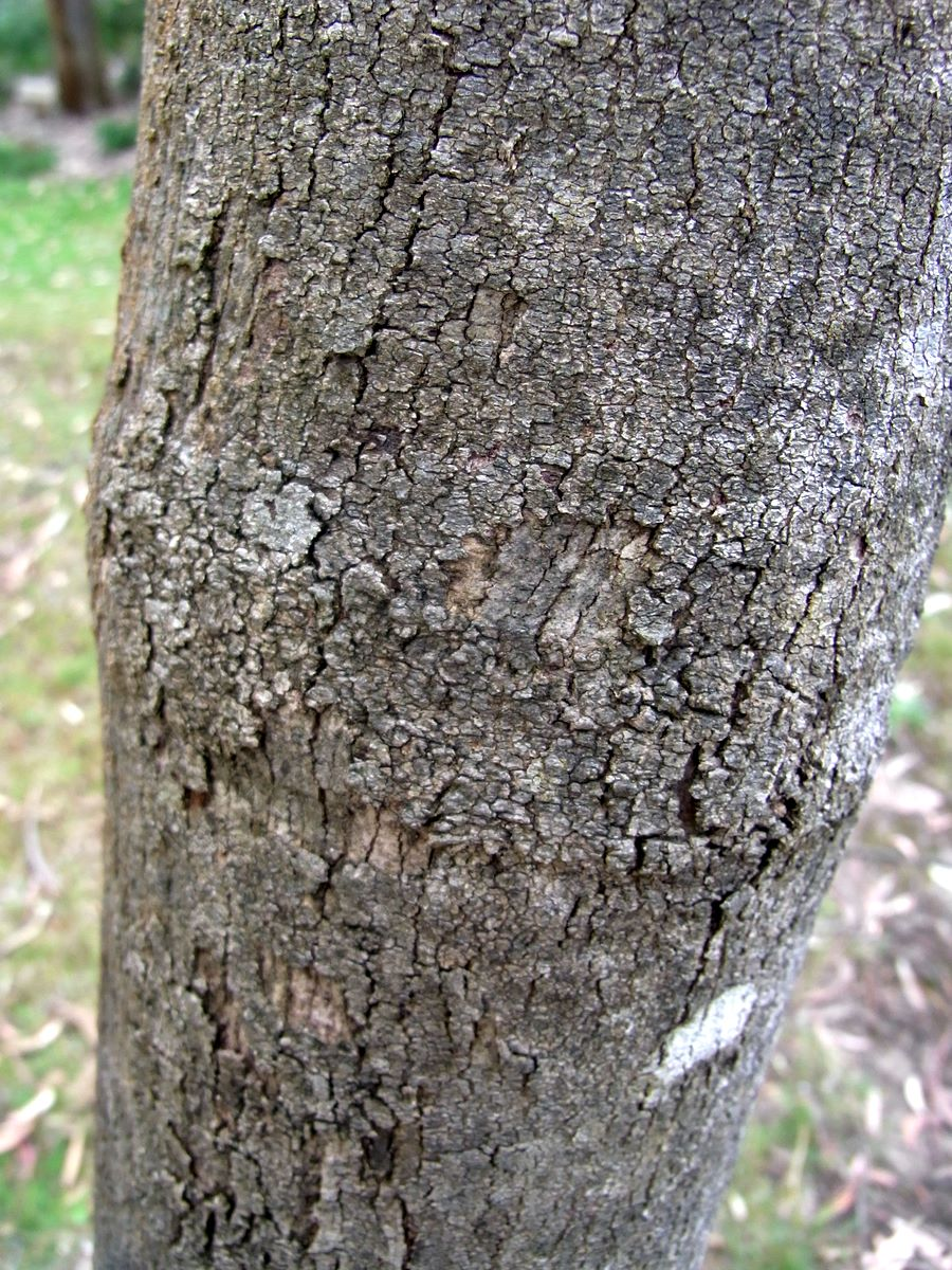 Eucalyptus cadens, labelled at the National Botanic Gardens, Canberra, Australia